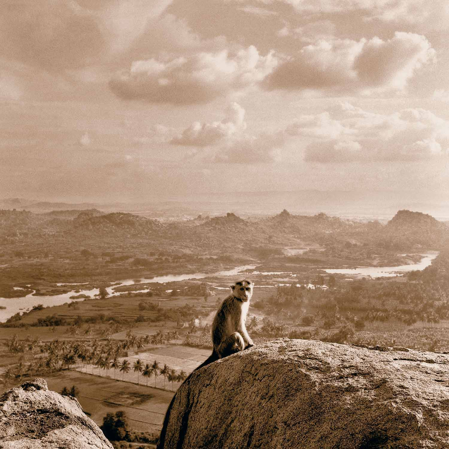 View from the Monkey Temple